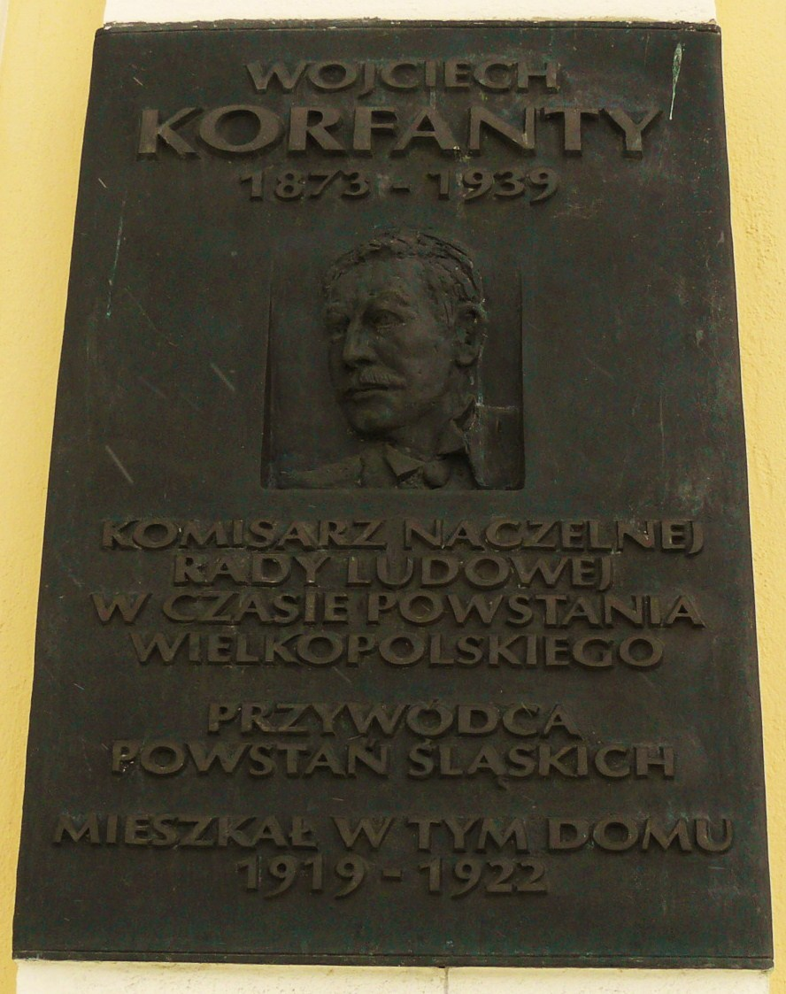 W.Korfanty table in Poznan, Fredry Street 8a.